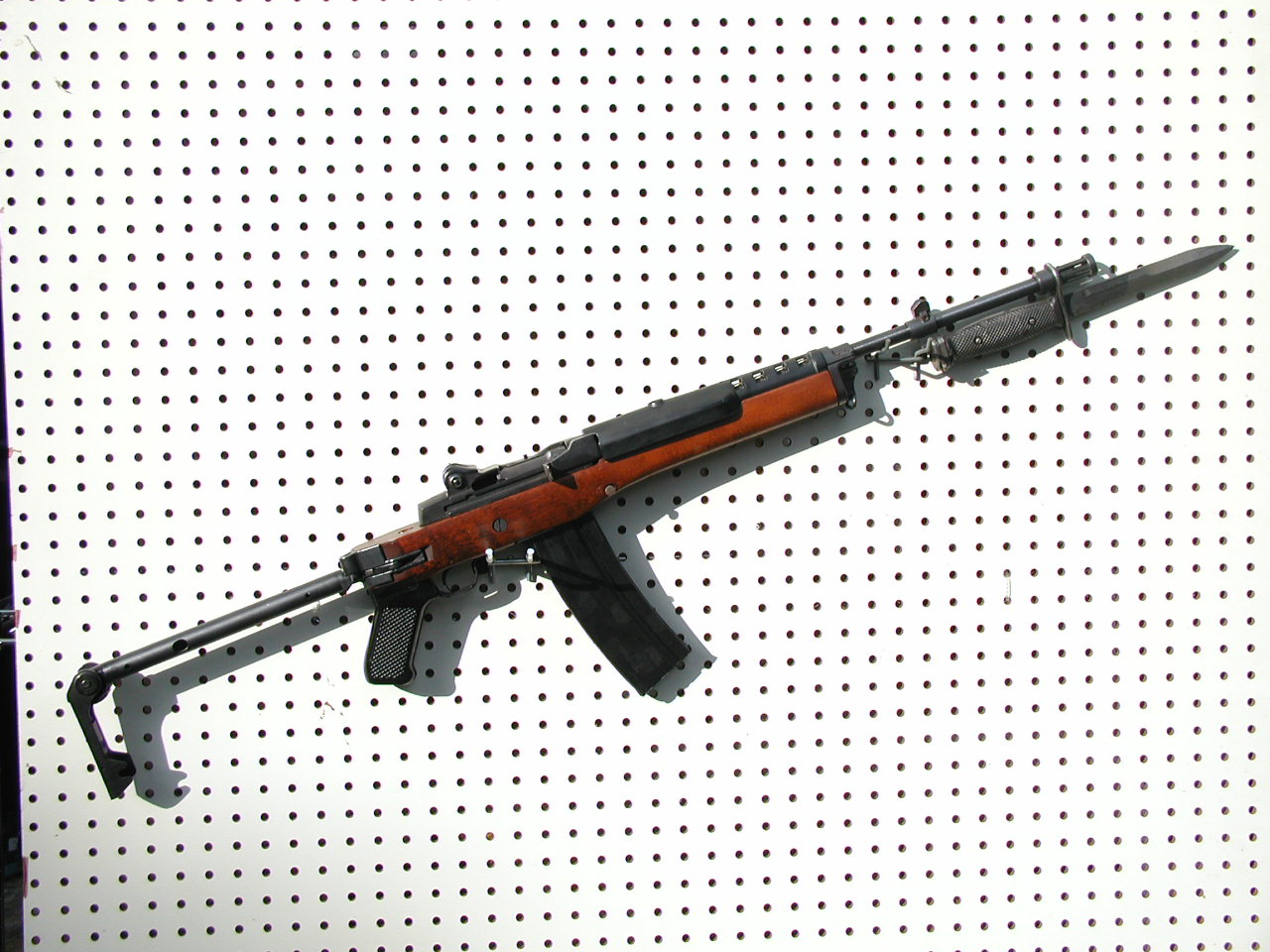 Ruger Mini-14/F30GB semi-automatic rifle (pictured with folding stock open & an M7 bayonet attached) Rifle is completely original Ruger issue (excluding U.S. Government issue M7 bayonet) featuring: pistol grip, folding stock, 30rd magazine(s), bayonet lug, threaded barrel, flash hider.